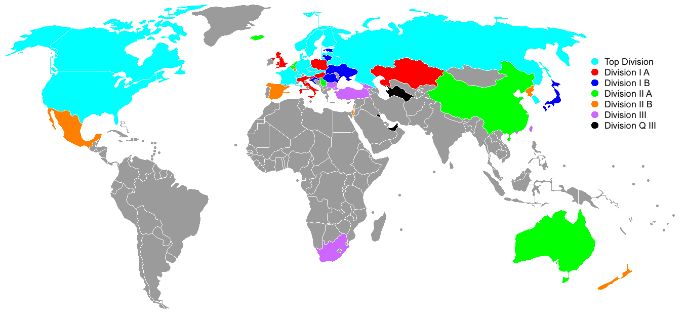 Participating nations in the 2018 IIHF World Championship, by Division